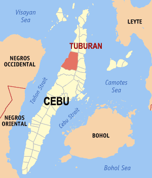 Map of Cebu showing the location of Tuburan